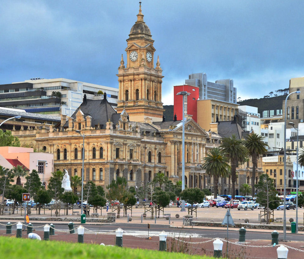 This City Hall which is predominantly in the Italian Renaissance style, was designed as the result of a public competition, the winning architects being Messrs Henry Austin Reid and Frederick George Green, with the contractors being Messrs T. Howard and F. G. Scott. Much of the building material, including fixtures and fittings was imported from Europe. The building was completed in 1905. The City Hall's carillon was installed as a World War I war memorial, with 22 additional bells being added in 1925 with the visit of the Prince of Wales. On February 11, 1990, only hours after his release from prison, Nelson Mandela made his first public speech after his release from the balcony of Cape Town City Hall.